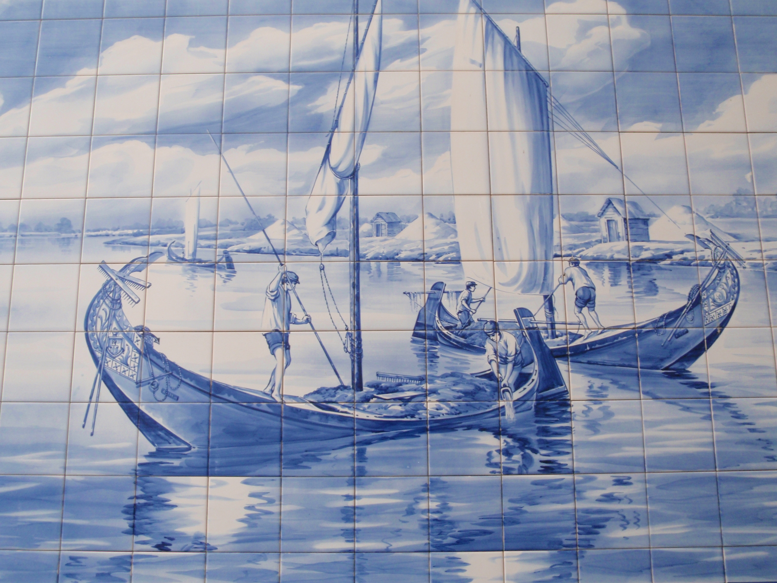 Typical activity in Aveiro during last century